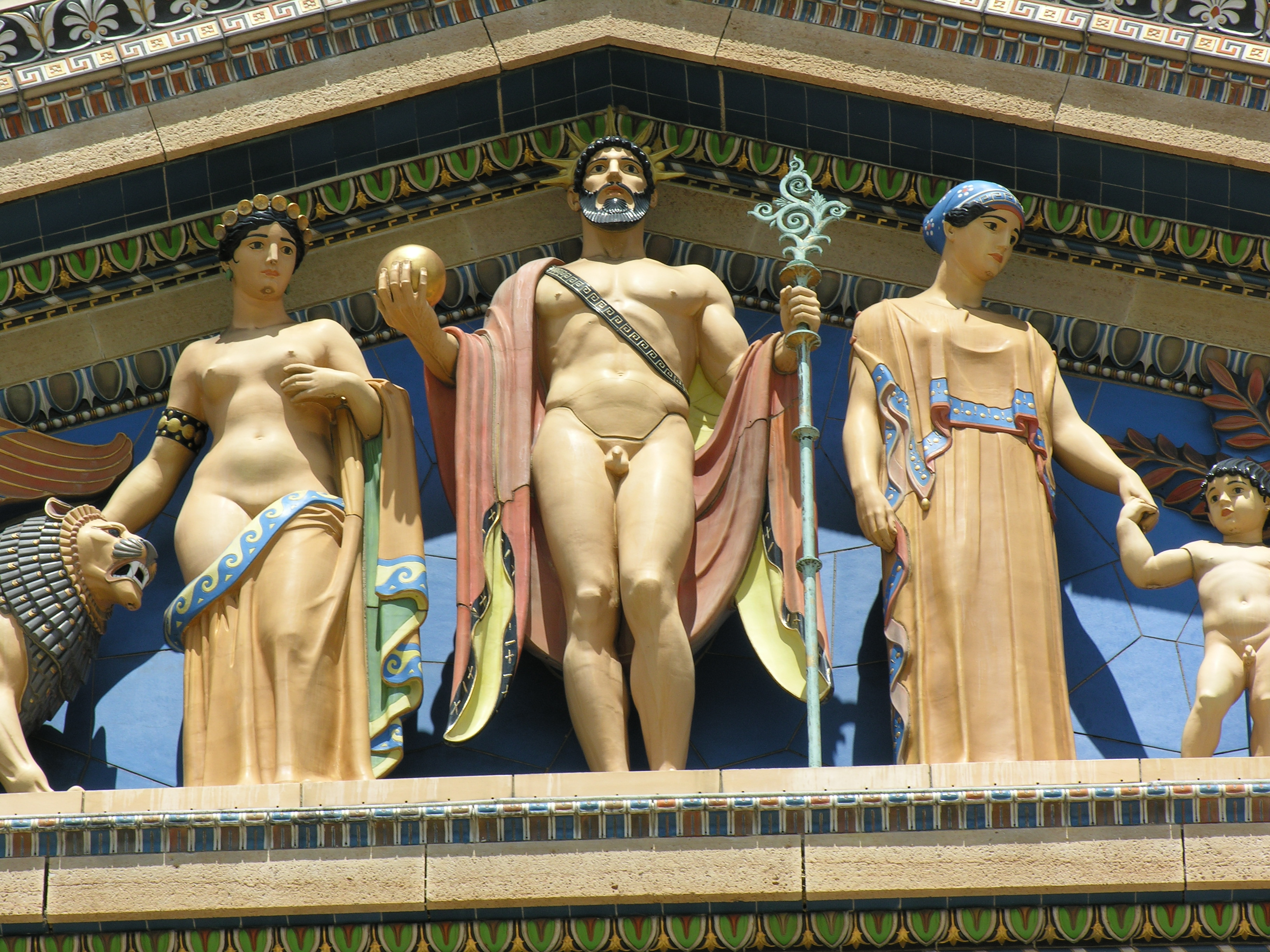 Detail of the only finished pediment (1932) at the Museum of Art in Philadelphia, Pennsylvania. Zeus at the center. Aphrodite on the left, with the lion Hippomenes. Demeter on the right with the child Triptolemus.